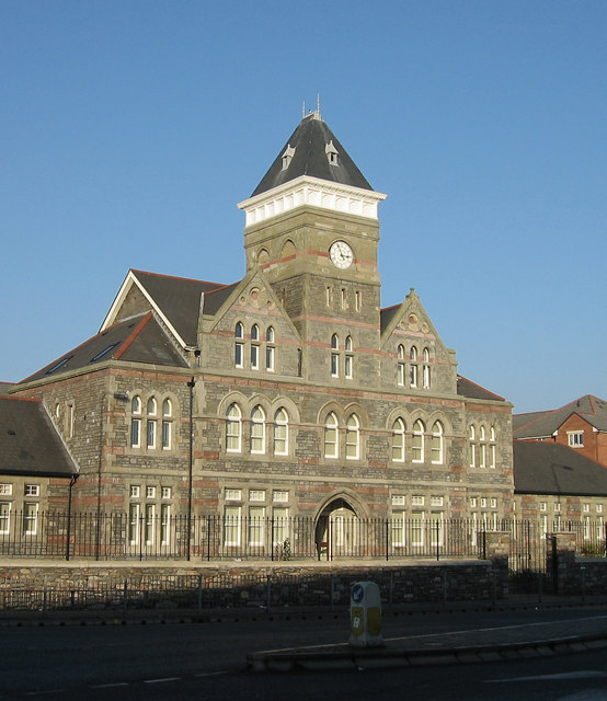 The old St.Davids Hospital, Cardiff, Wales.